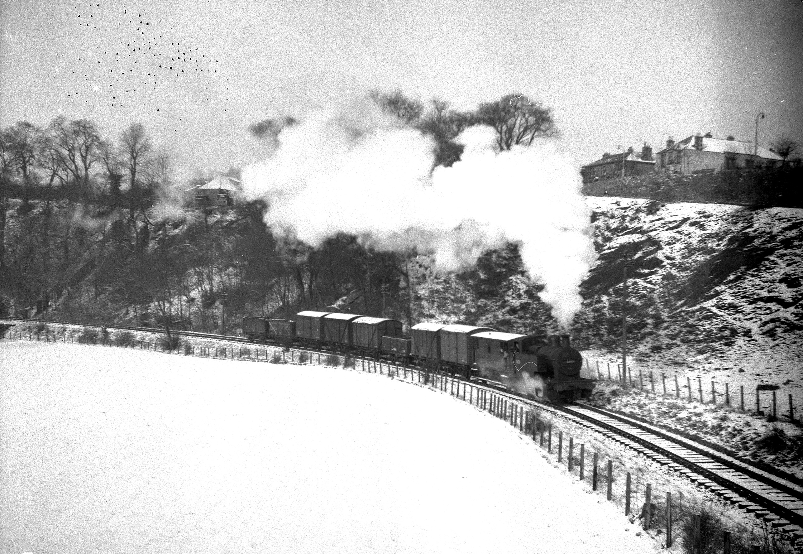 A freight train hauled by Locomotive No 47163 approaching Juniper Green from Colinton.